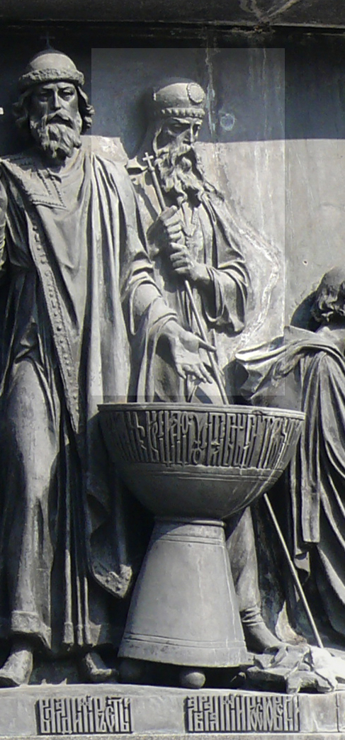 Abraham of Rostov on the Monument "Millennuim of Russia" in Veliky Novgorod